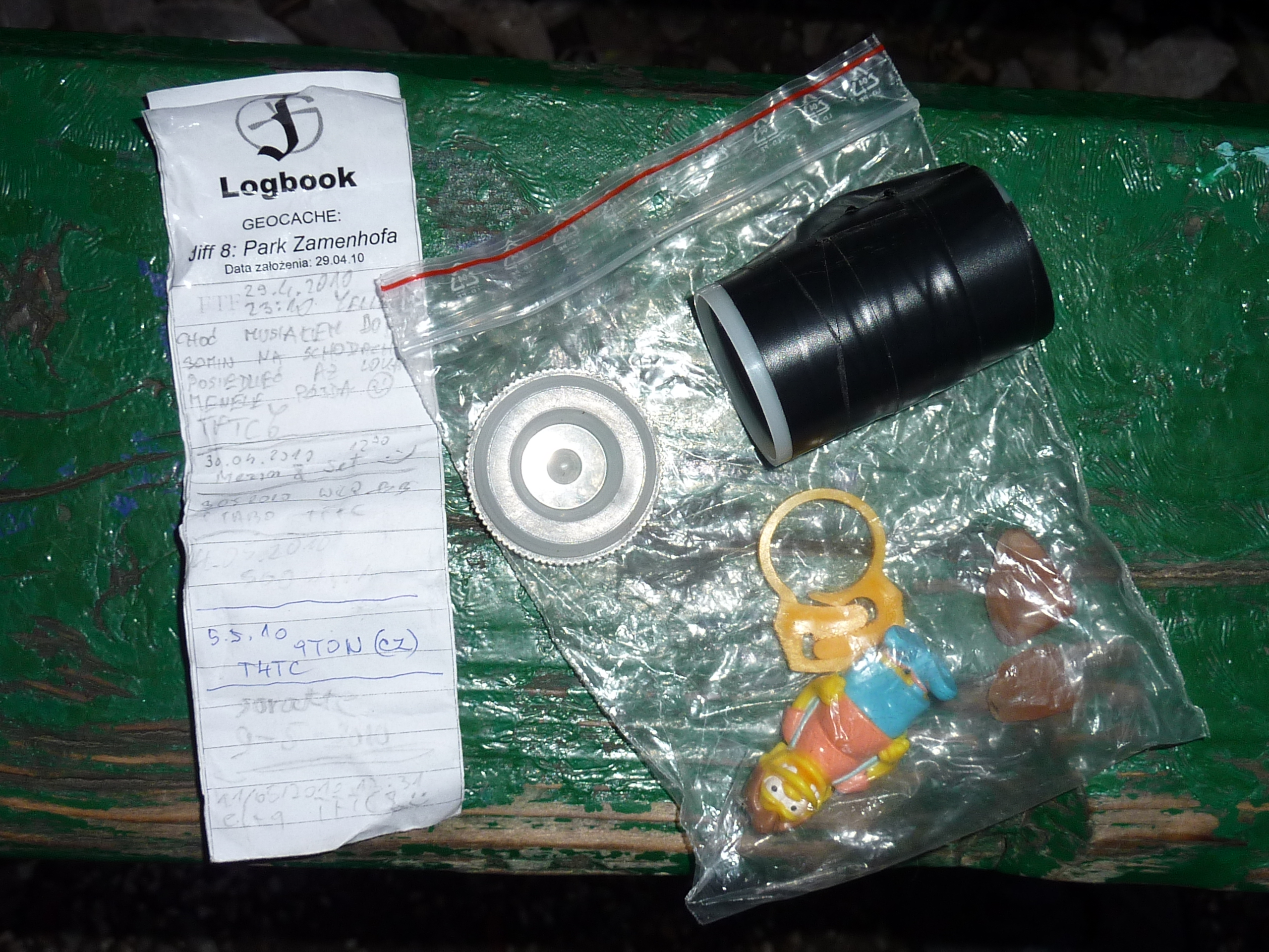 A geocache in the Zamenhof Park ("Park Zamenhofa") in Bielsko-Biała (Poland).